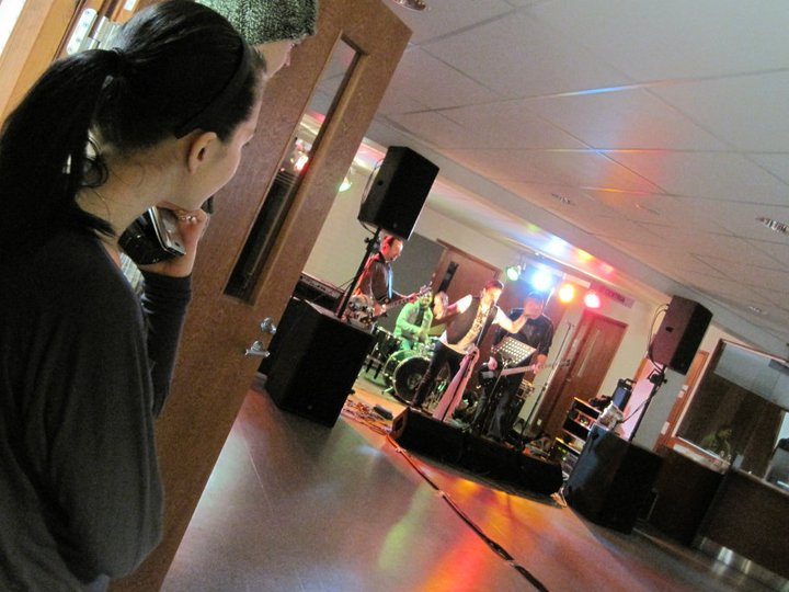 Inside campus and student life at Central Ostrobothnia University of Applied Sciences